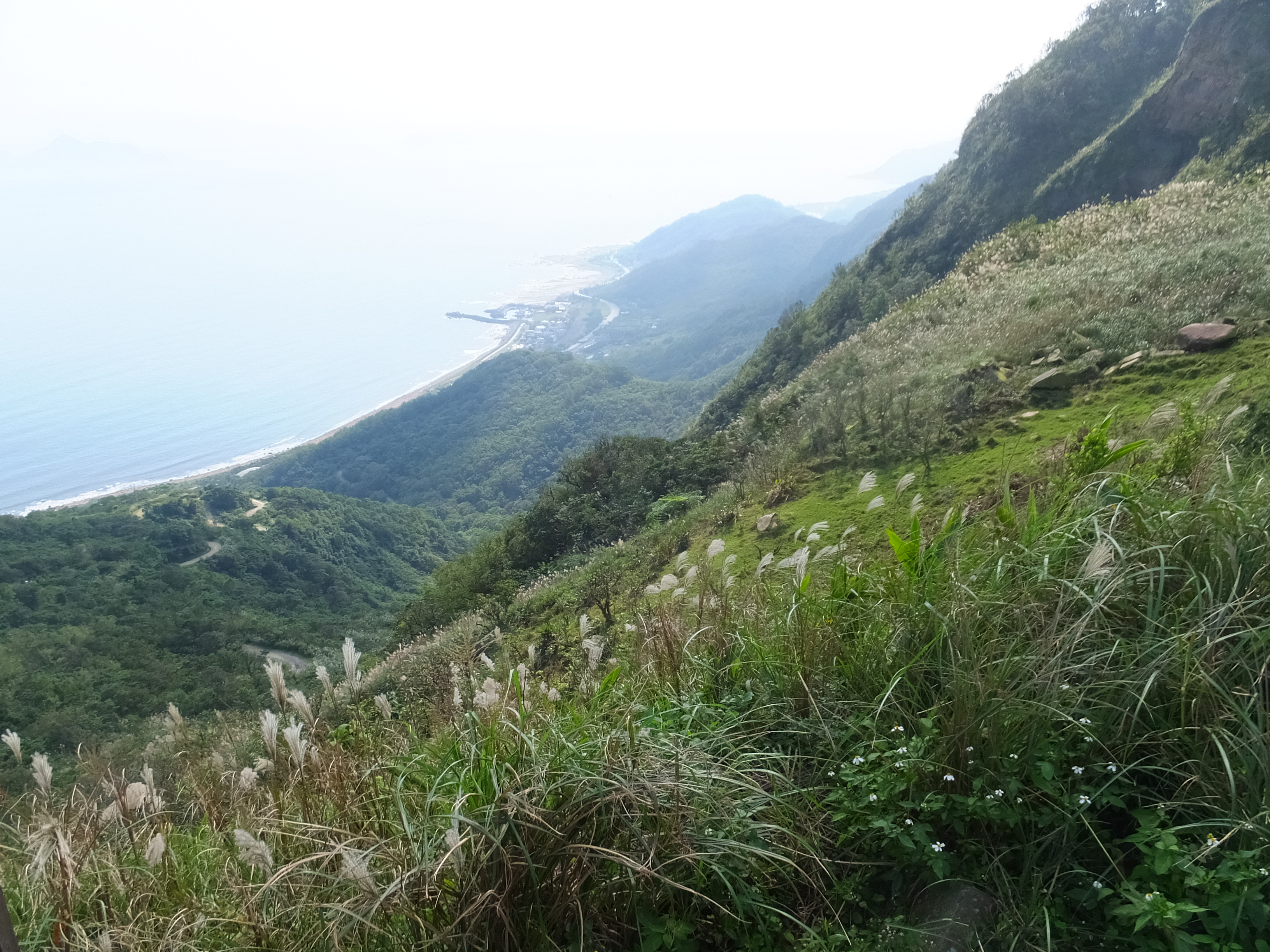 Caoling Historic Trail 草嶺古道